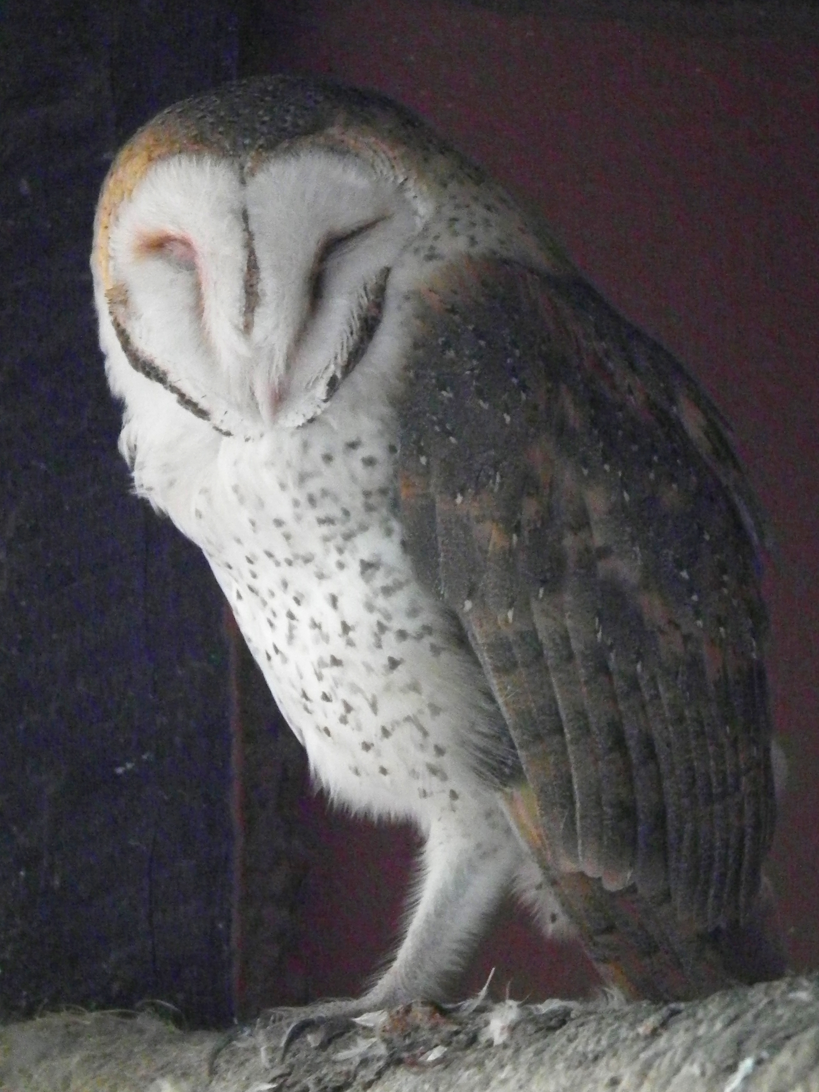 Birds of Tanzania